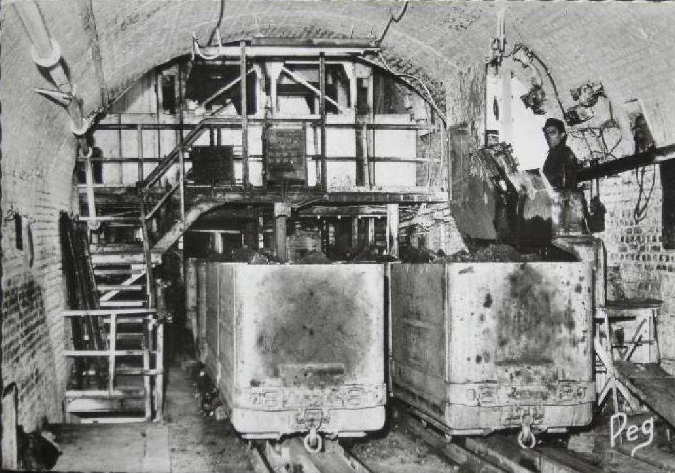 Compagnie des mines d'Ostricourt, Nord-Pas-de-Calais, France.